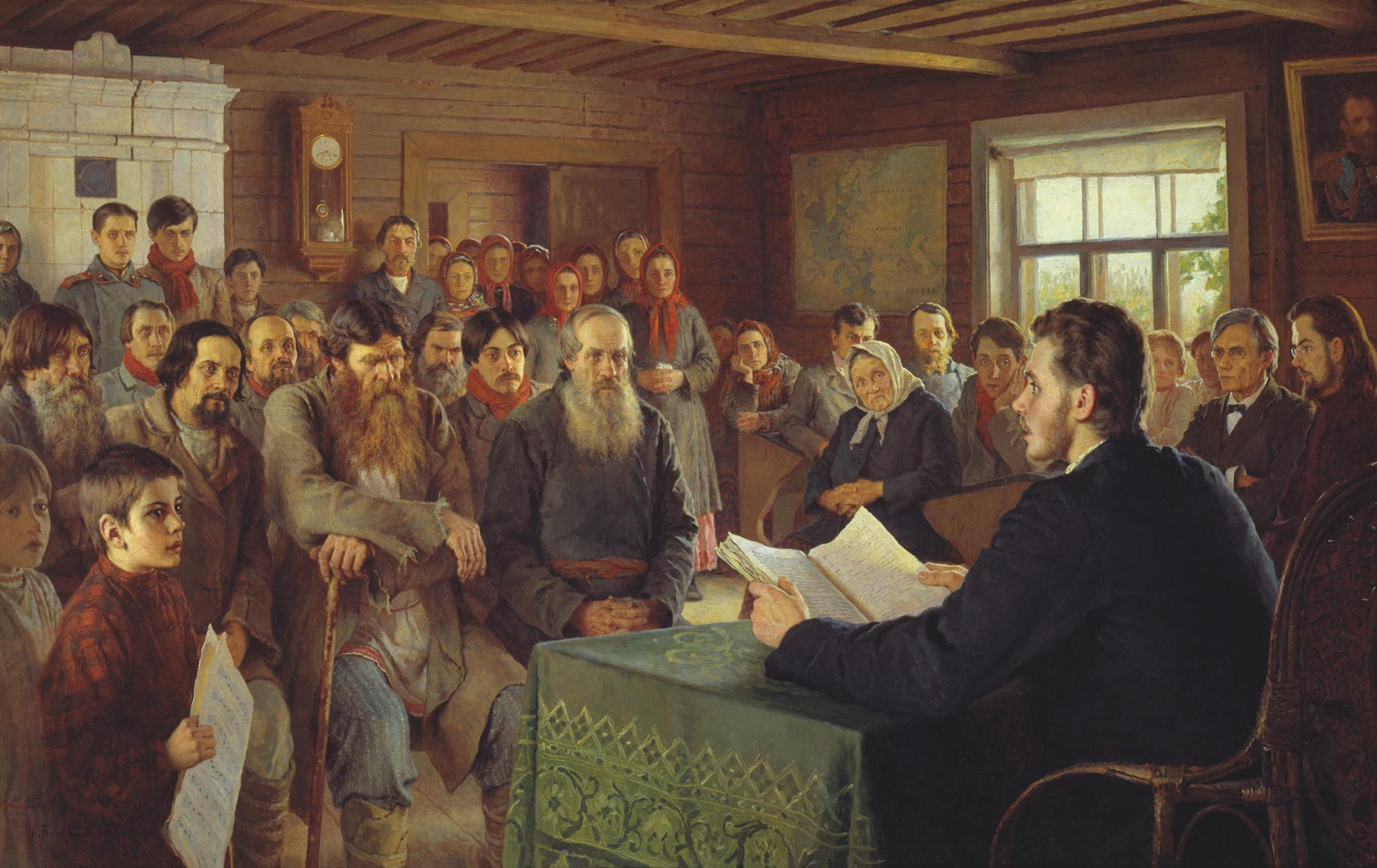 Sunday Reading in Rural Schools. Oil on canvas. The State Russian Museum, St. Petersburg